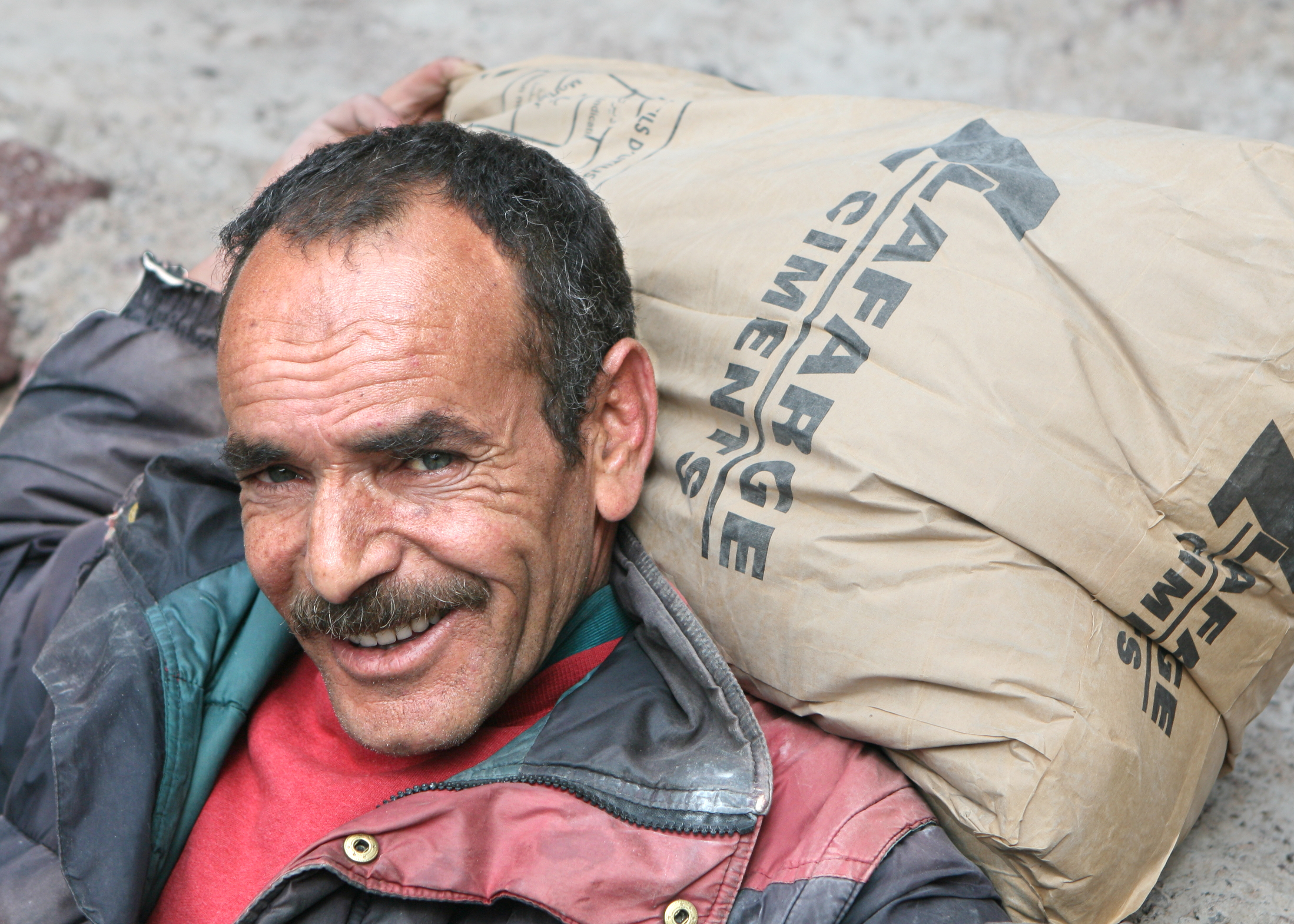 Berber man with bag of cement in Moroccan village.